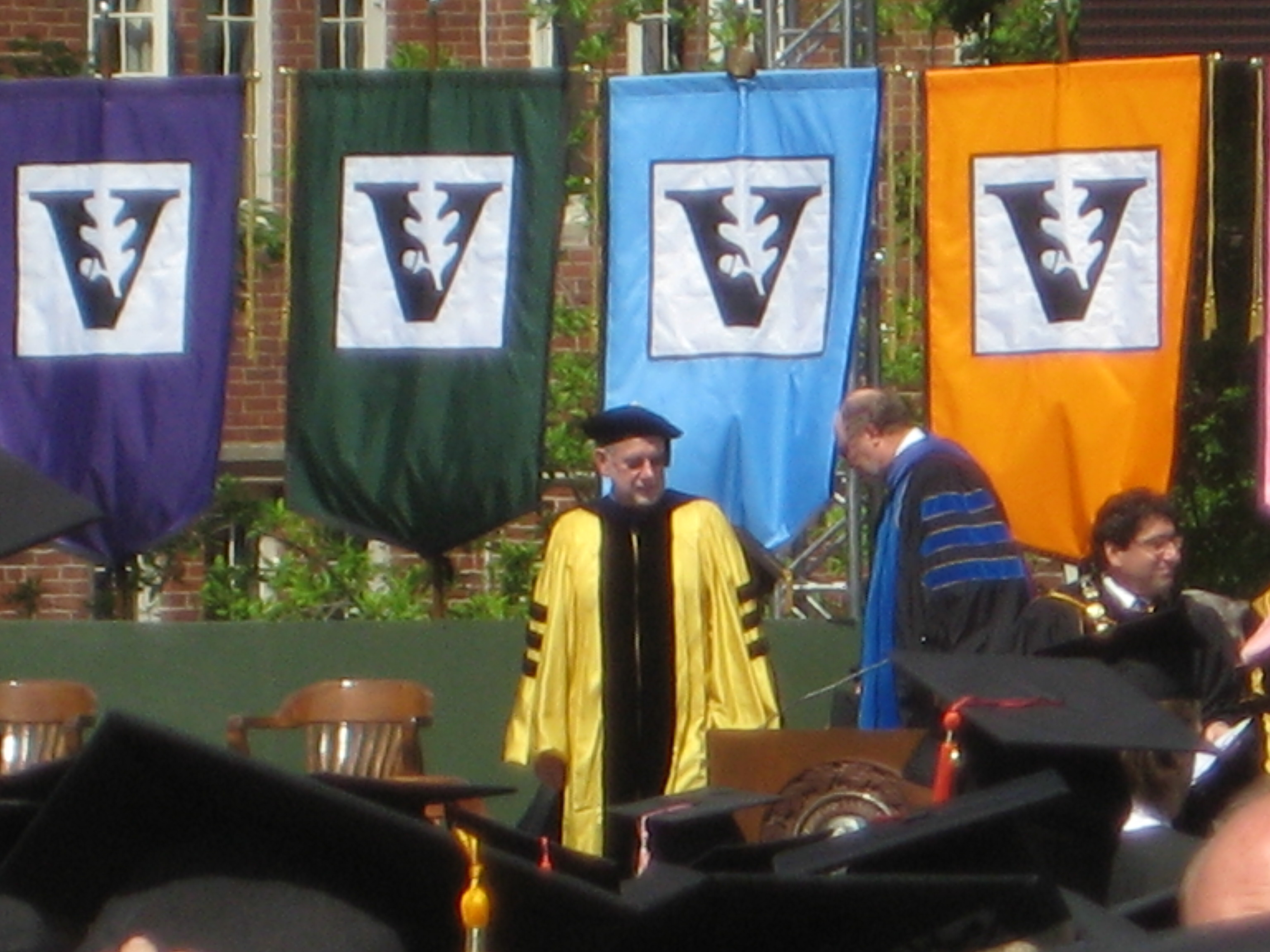 Vanderbilt University Provost and Vice Chancellor for Academic Affairs Richard C. McCarty at the 2008 Commencement exercises.